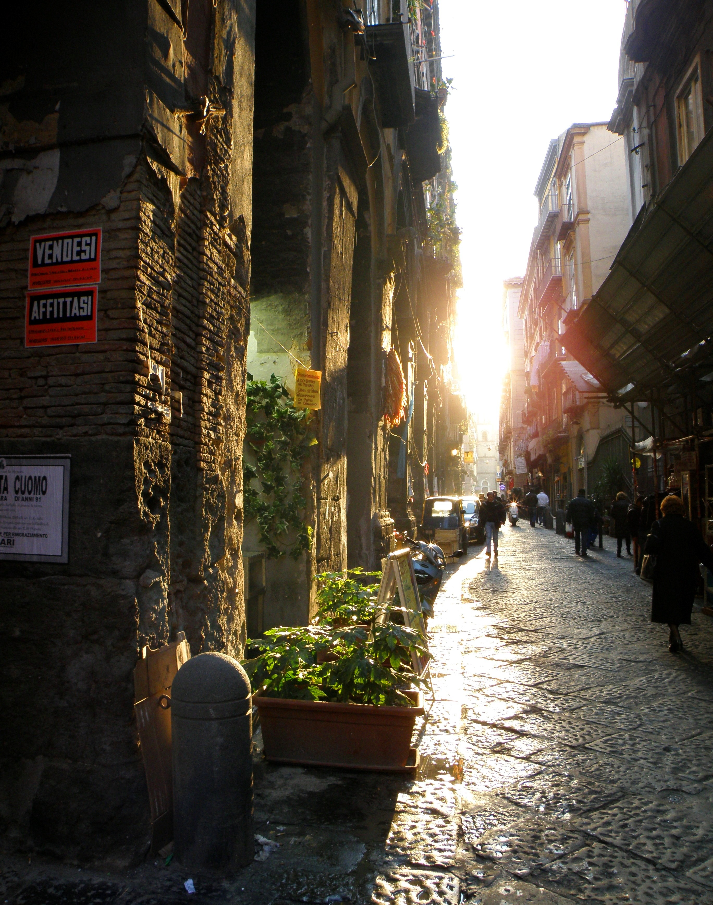 Via dei Tribunali also said Decumano maggiore (name that comes from the ancient greek foundation of the city), in Napoli's historical centre, Italy.